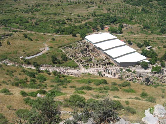 Author: Arsinoe